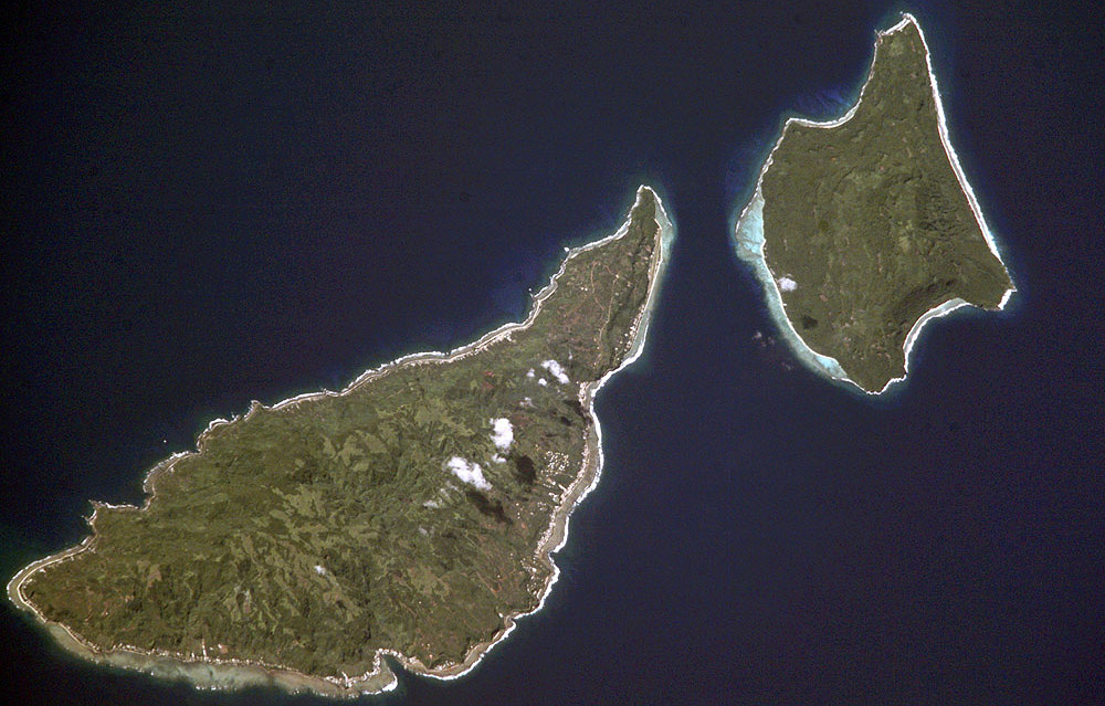 Futuna and Alofi from space